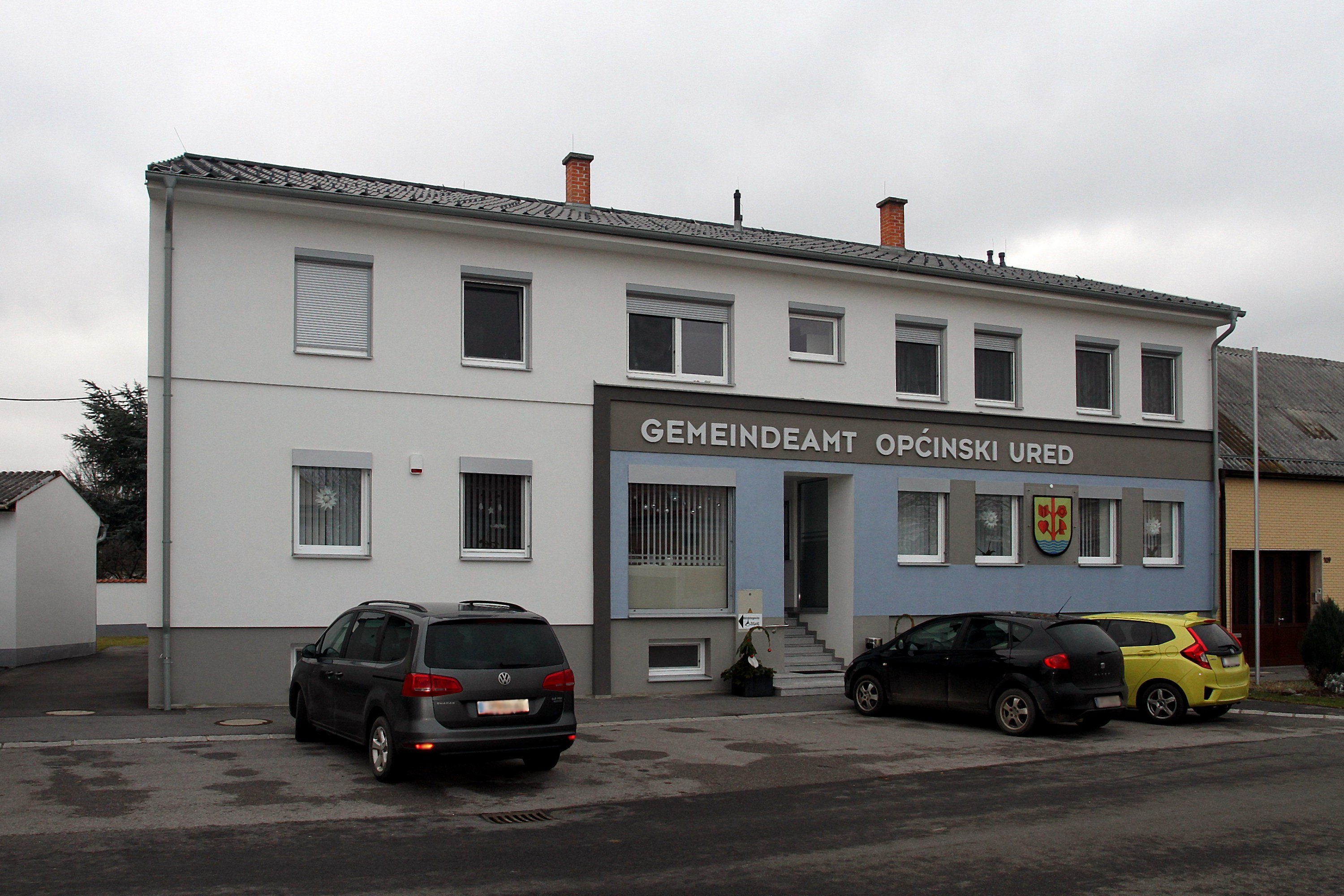 Frankenau-Unterpullendorf - municipal office in Frankenau